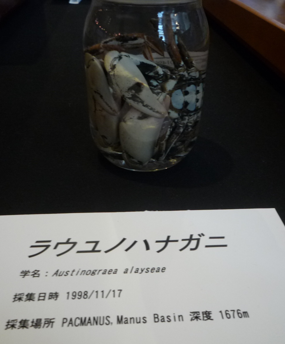 Austinograea alayseae specimen